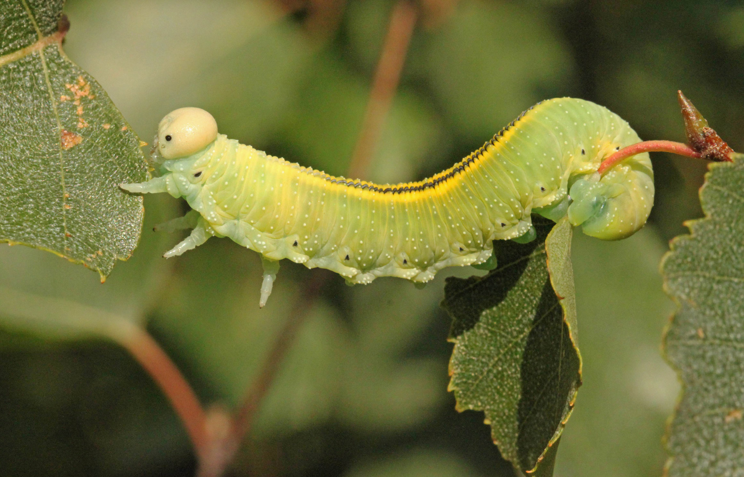 Cimbex femoratus, Deeside, North Wales, Sept 2011